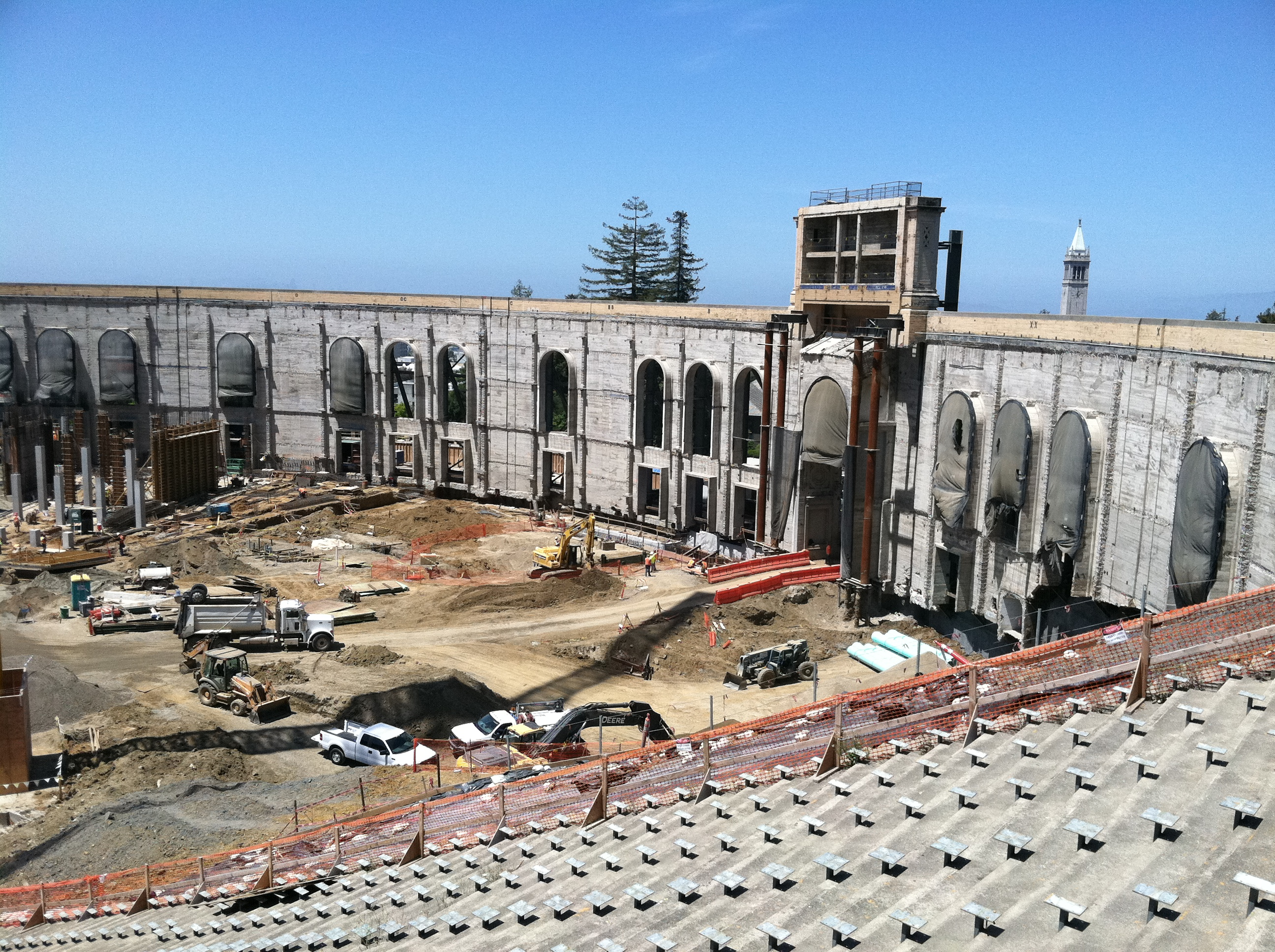 Construction progress at California Memorial Stadium] on June 16, 2011.